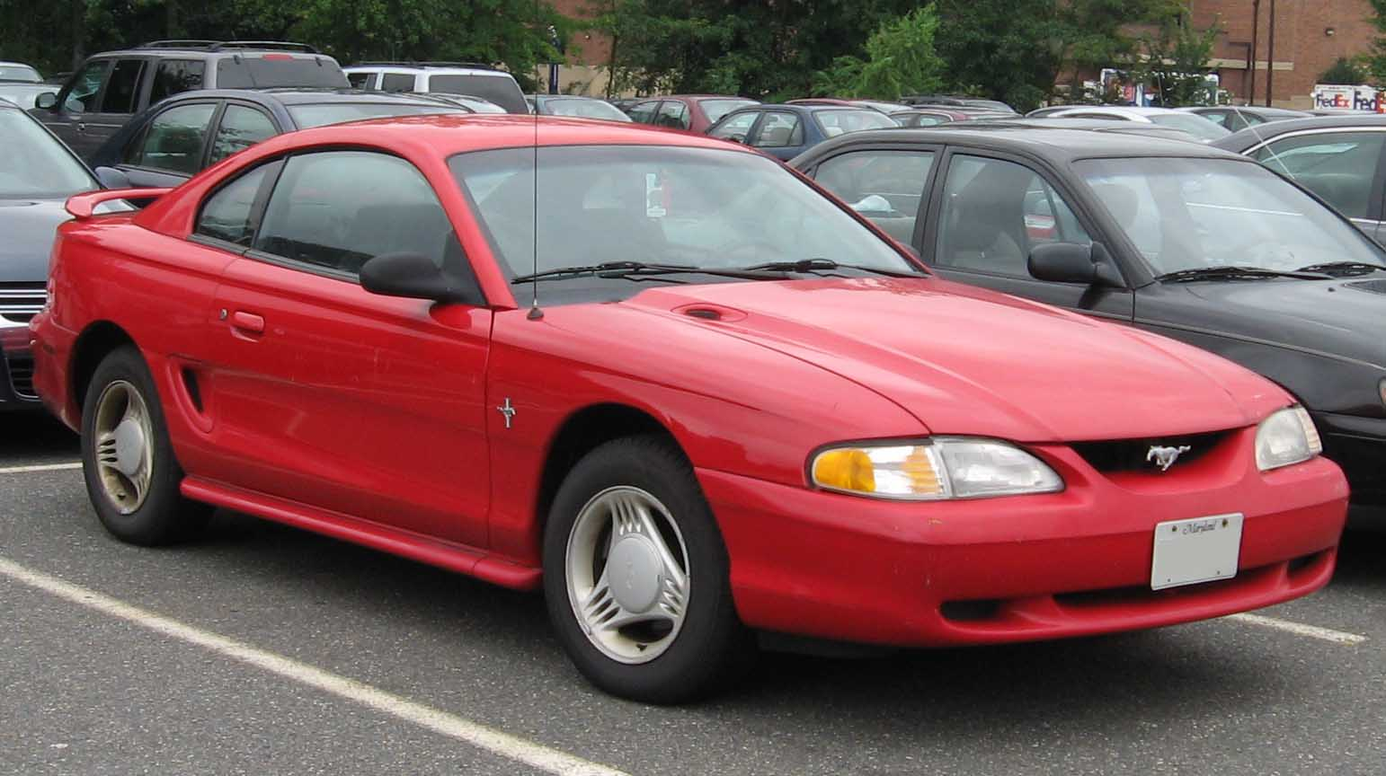 1994-1998 Ford Mustang photographed in USA.